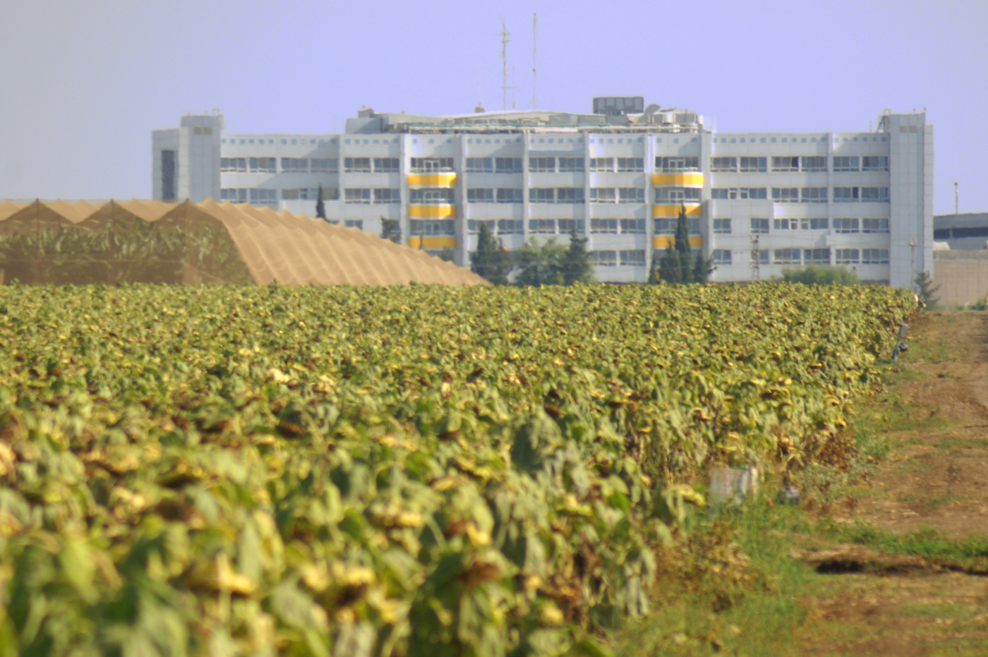 "Malben" hospital, Health in Israel